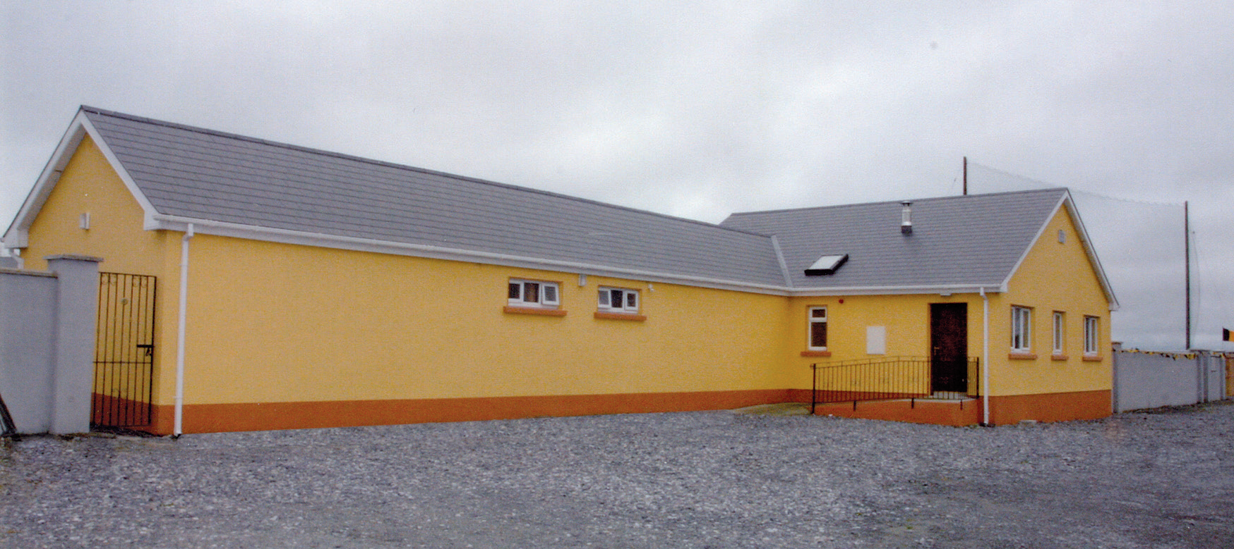 The Club Rooms of the Seir Kieran GAA Club, Clareen, on completion in 2005